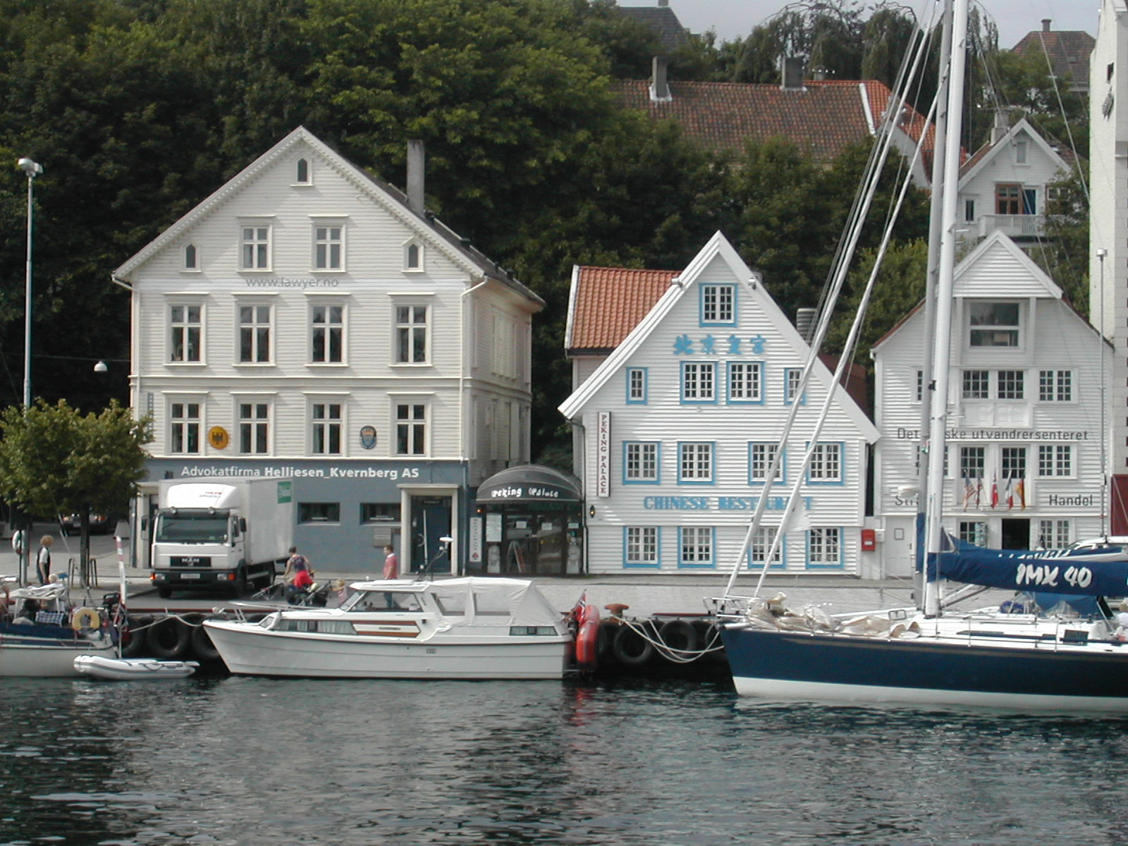 Along Vågen. Stavanger, Rogaland, Norway.